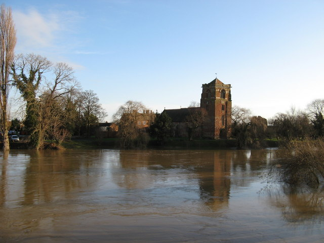 River Severn, near to Atcham, Shropshire, Great Britain. River Severn in flood,at Atcham.